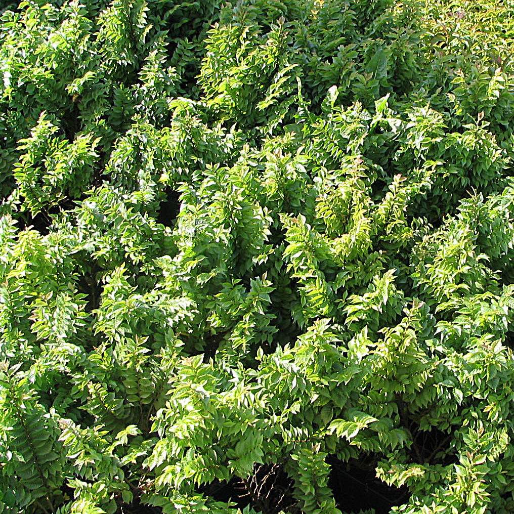 Ulmus x hollandica 'Jacqueline Hillier' 'Conica' nursery Palic, Serbia